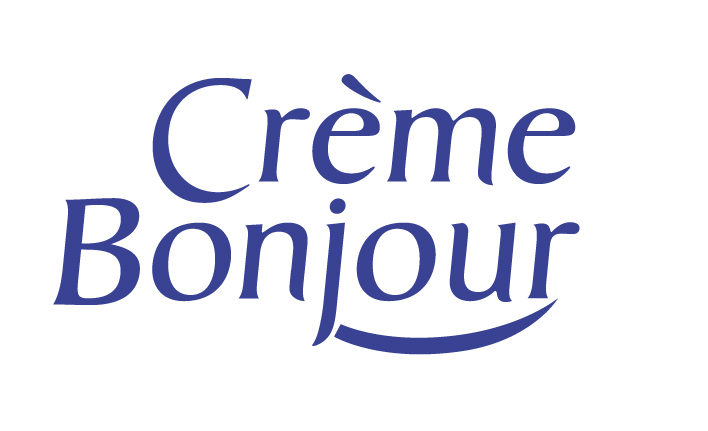 Creme Bonjour logo